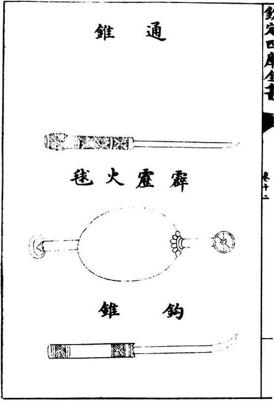 An illustration of a thunderclap bomb as depicted in the 11th century book Wujing Zongyao.